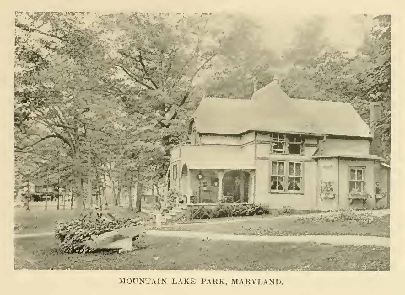 Photograph of Mountain Lake Park, Maryland, that appeared in Baltimore & Ohio Railroad Company's Book of the Royal Blue, April 1909, Vol. 12 No. 07, Page 09